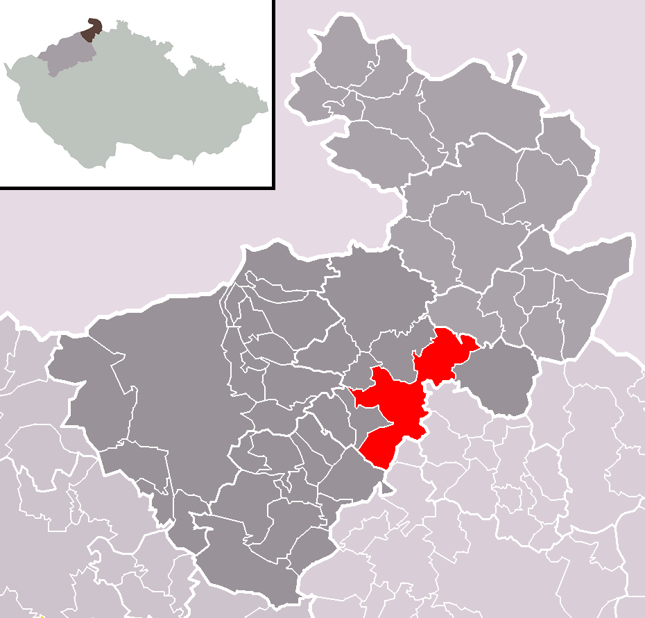 Location of Česká Kamenice town within Děčín District and administrative area of Děčín as a Municipality with Extended Competence.